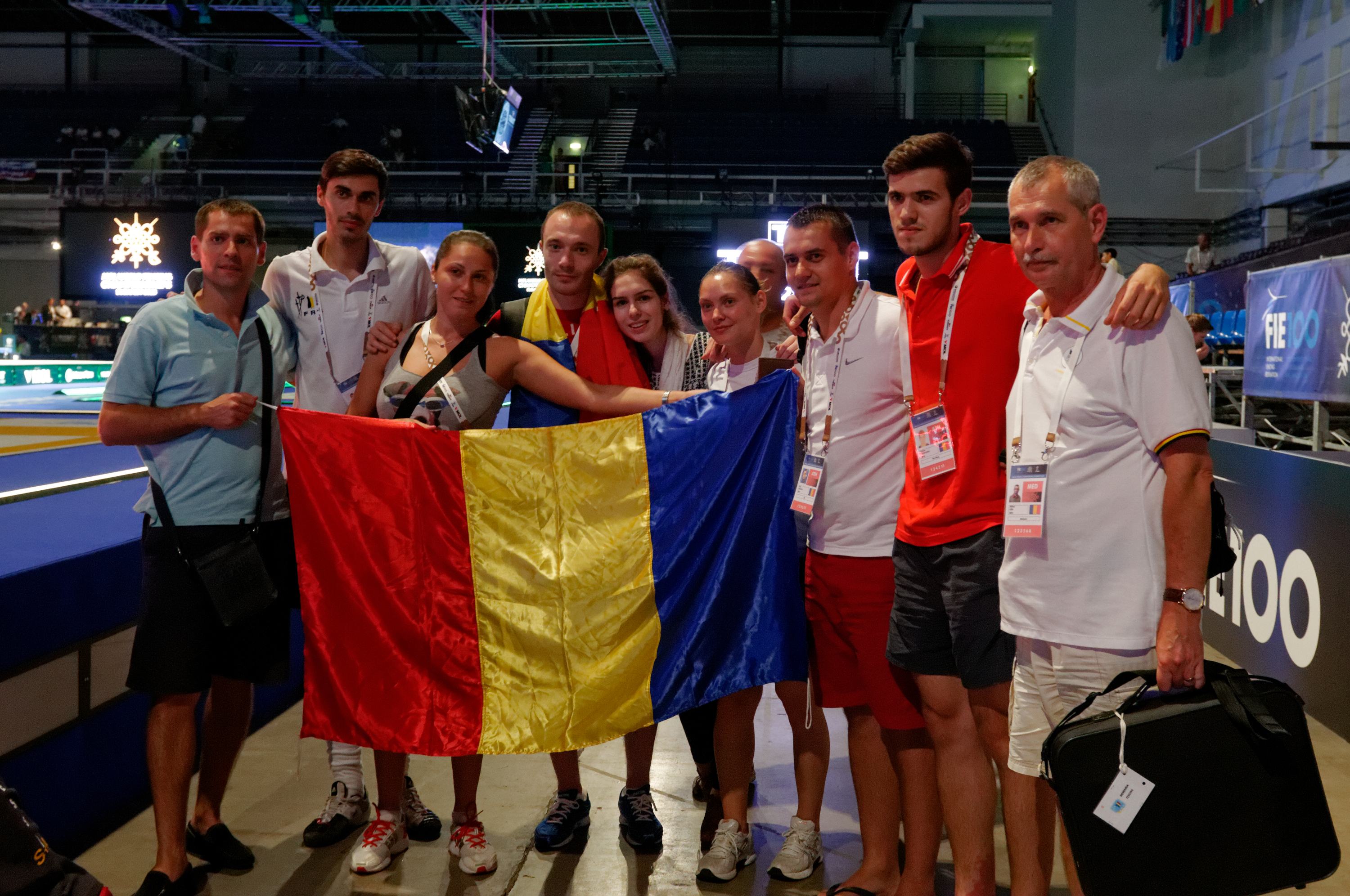 Romanian athletes and their entourage pose after the men's sabre final in the 2013 World Fencing Championships 2013 at Syma Hall in Budapest, 7 August 2013.